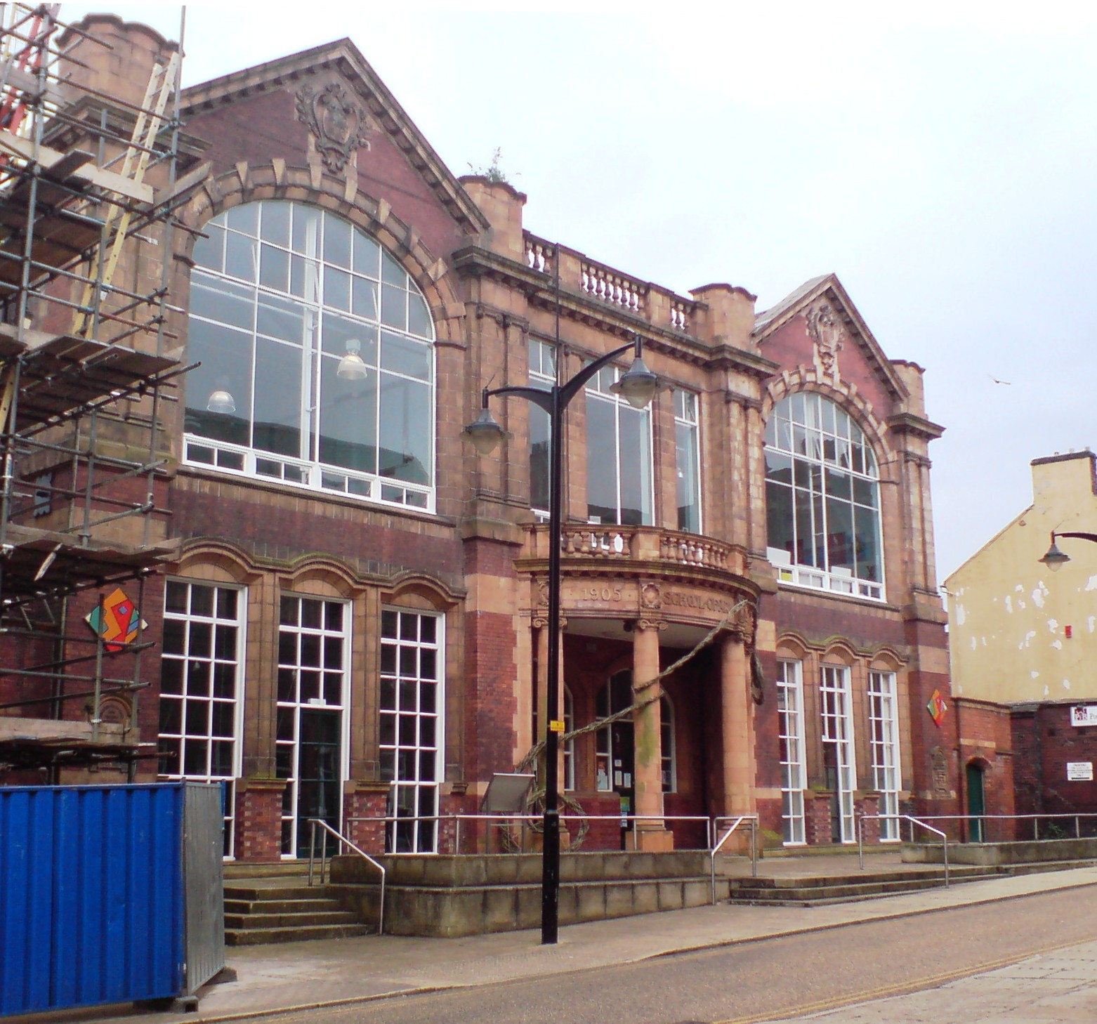 Site of the former Burslem School of Art, now home to the Burslem public library